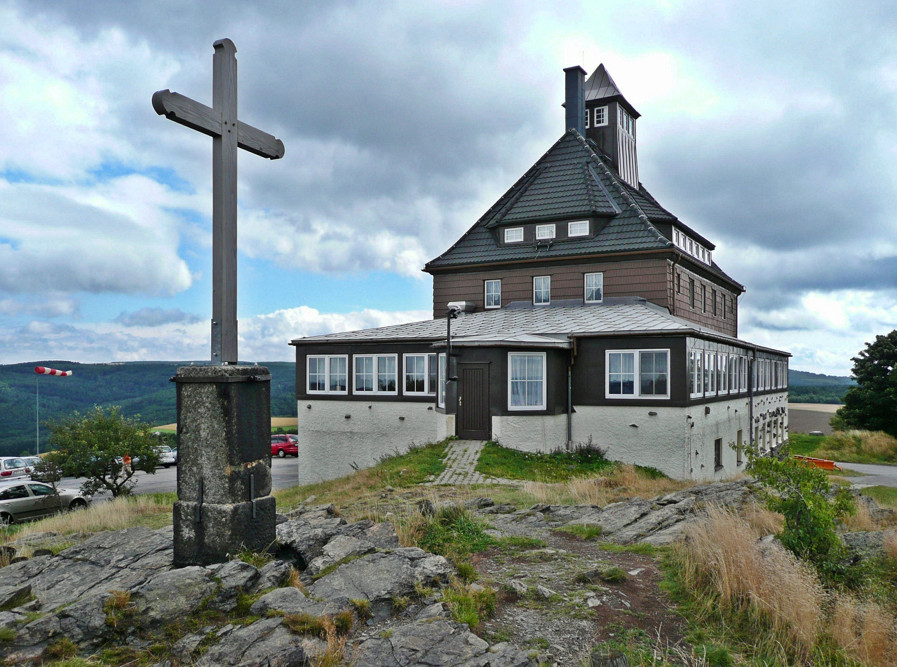 This image shows the mountain hut ("Schwartenbergbaude") on top of the Schwartenberg (789 m) in the Ore Mountains.